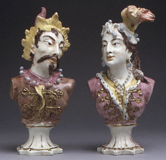 British, Bow; Figure; Ceramics-Porcelain